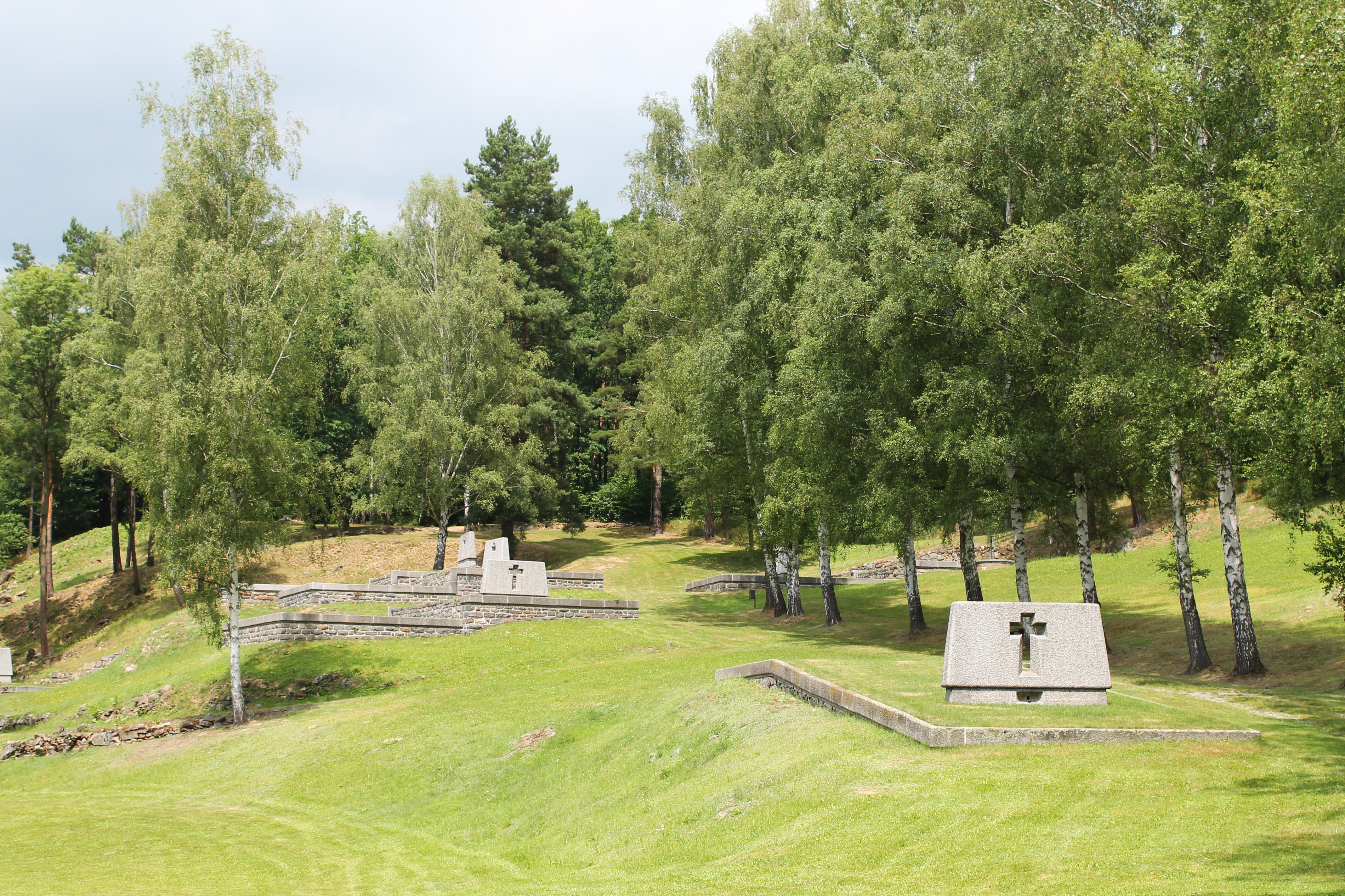 Ležáky, Habroveč, Vrbatův Kostelec, Chrudim District, Czech Republic